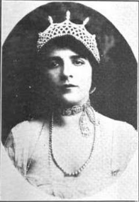 "The American Club Woman Magazine", Motion Picture World, by Blanche MacDonald, July 1916, page 9